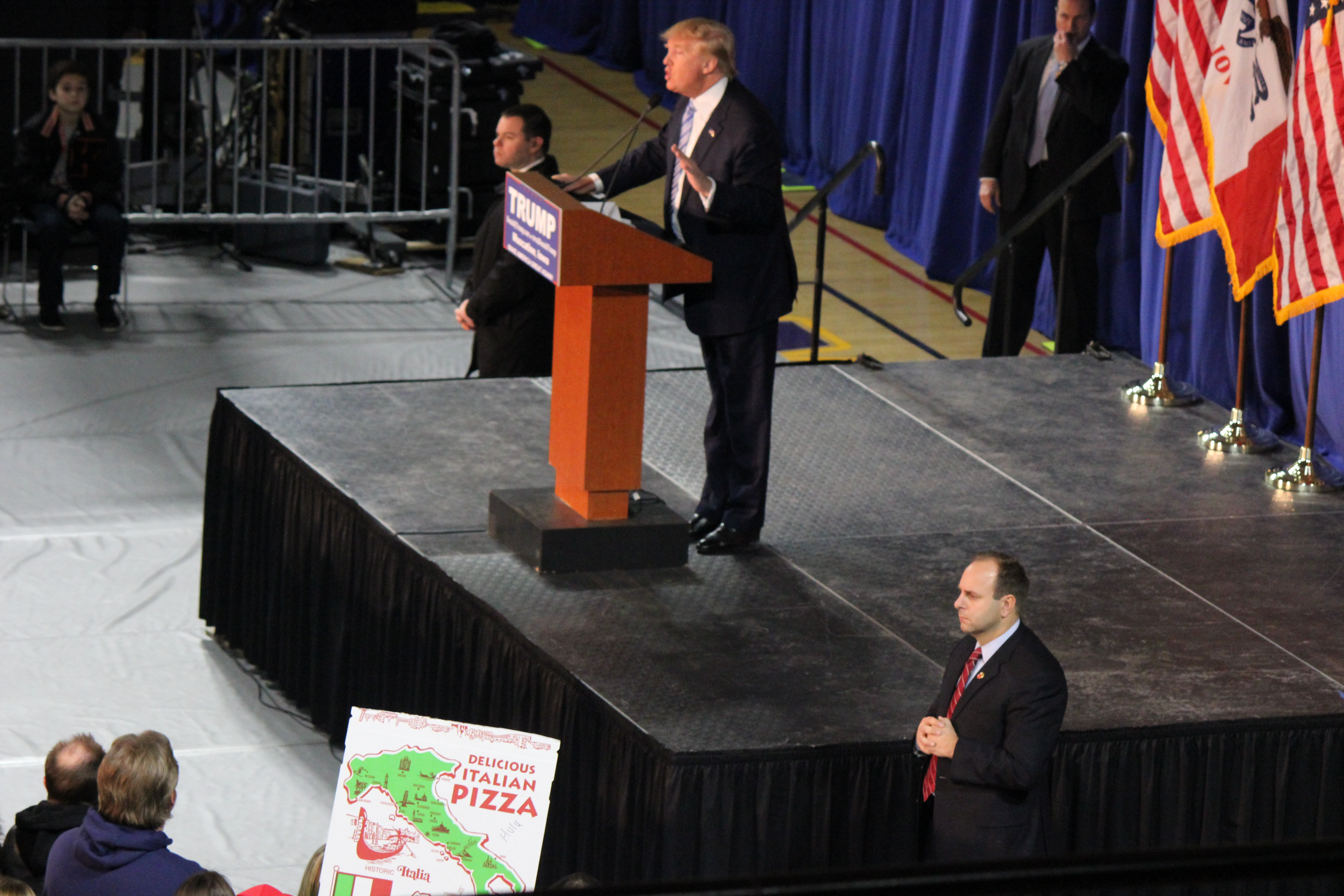 Donald Trump with two United States Secret Service personnel beside him, and a spectator holding up a cardboard printed with "Delicious Italian Pizza" and the map and flag of Italy.